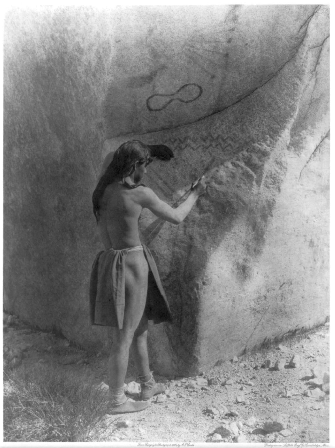 Original title The primitive artists--Paviotso Description Paviotso man standing, marking side of glacial boulder that already has petroglyphs on it.